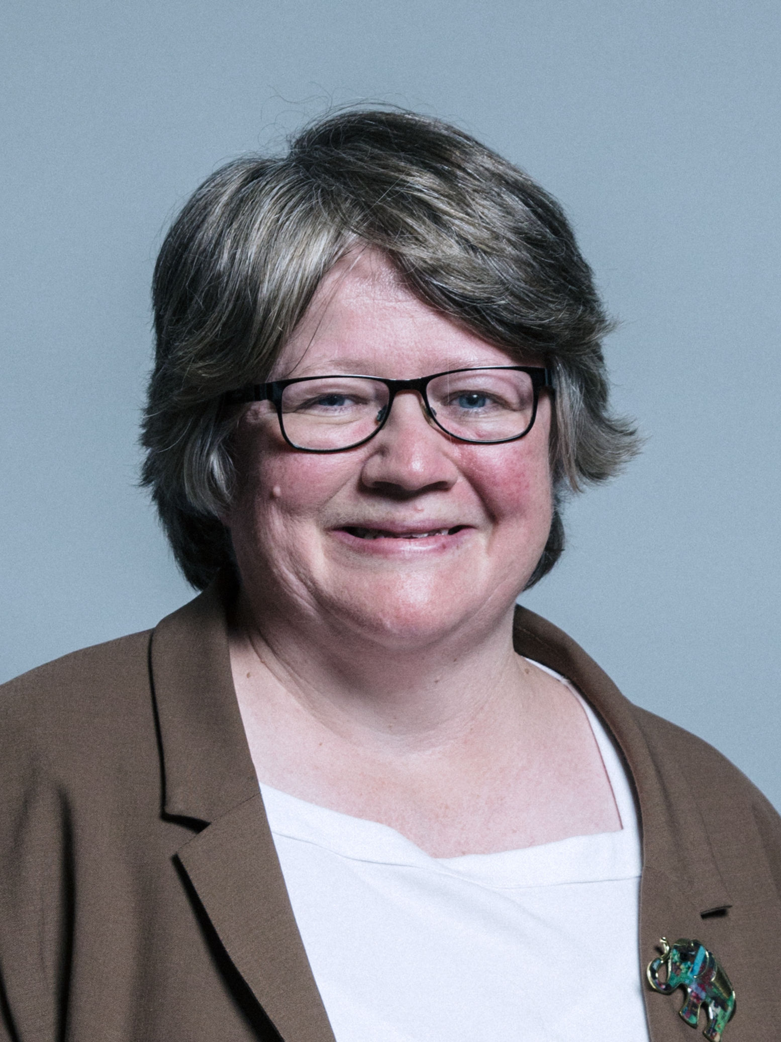 Official portrait of Dr Thérèse Coffey